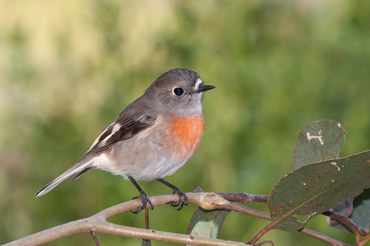 One of my favourite regulars around our house.